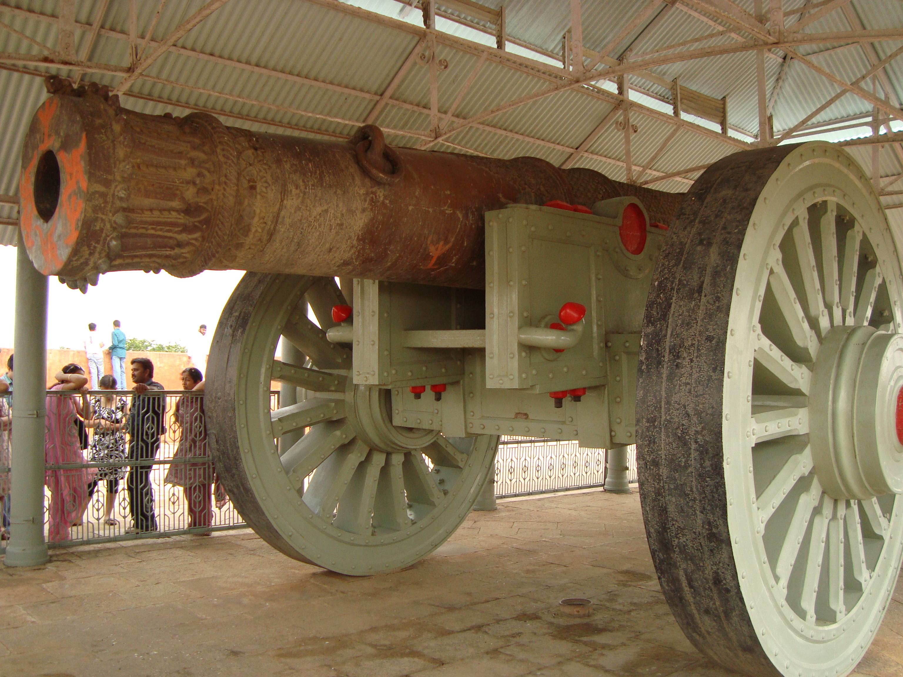 Front portion of Jaivan Cannon at Jaigarh Fort, Jaipur, India